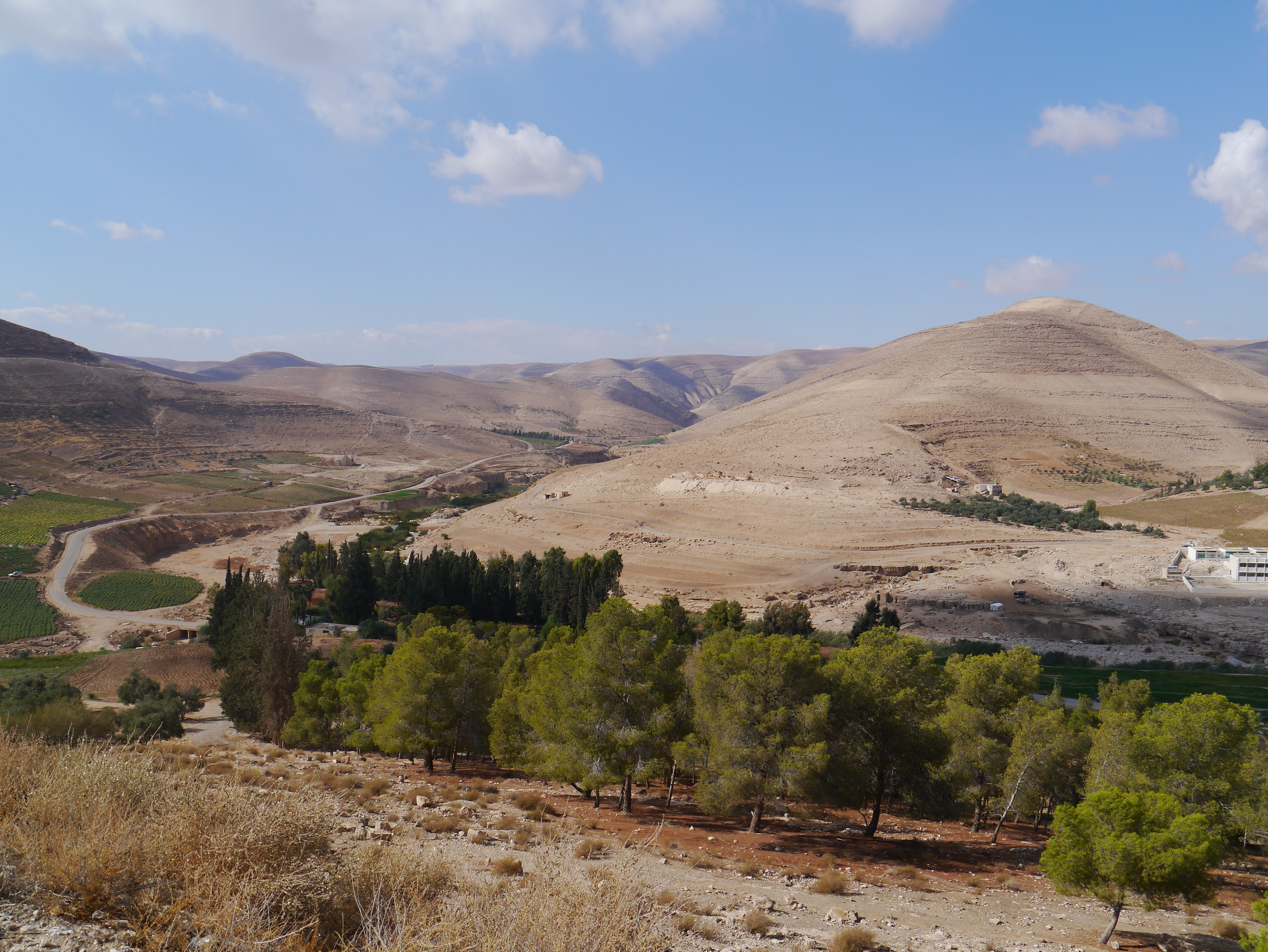 Mujib Valley, Western Jordan